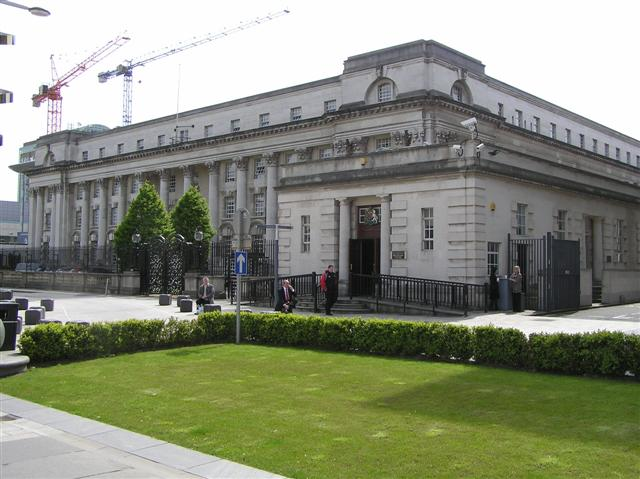 Royal Courts of Justice, Belfast It is located on Oxford Street